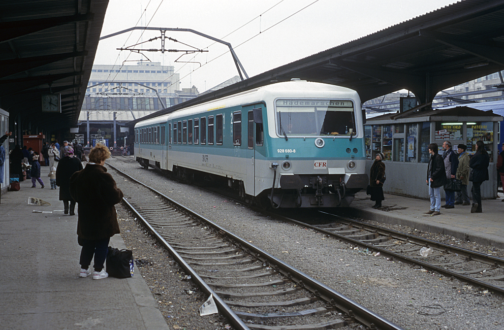 CFR Class 92 in Gara de Nord